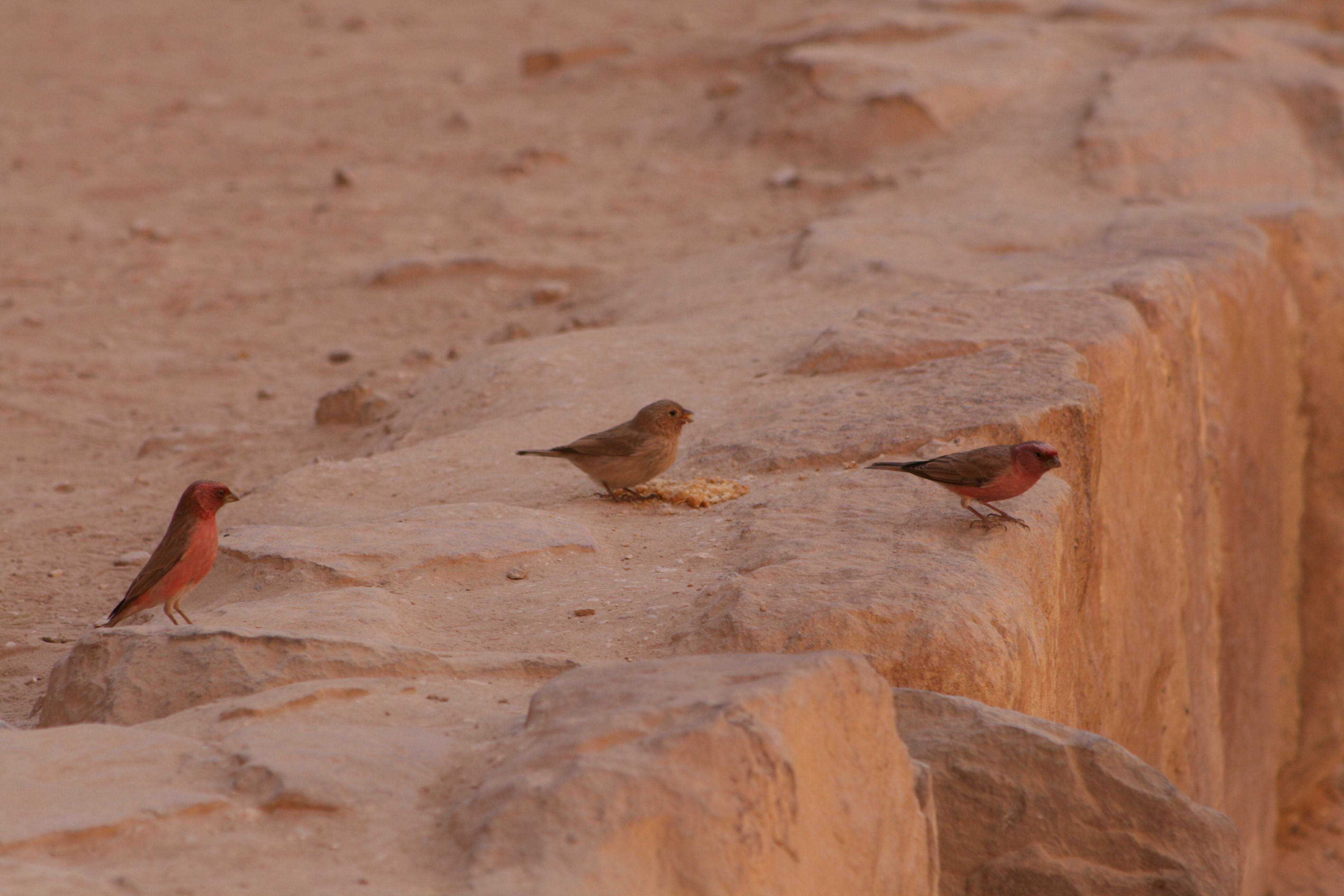 3 Pale Rosefinch (Carpodacus synoicus), 2 males and one female in the middle, Petra, Jordan